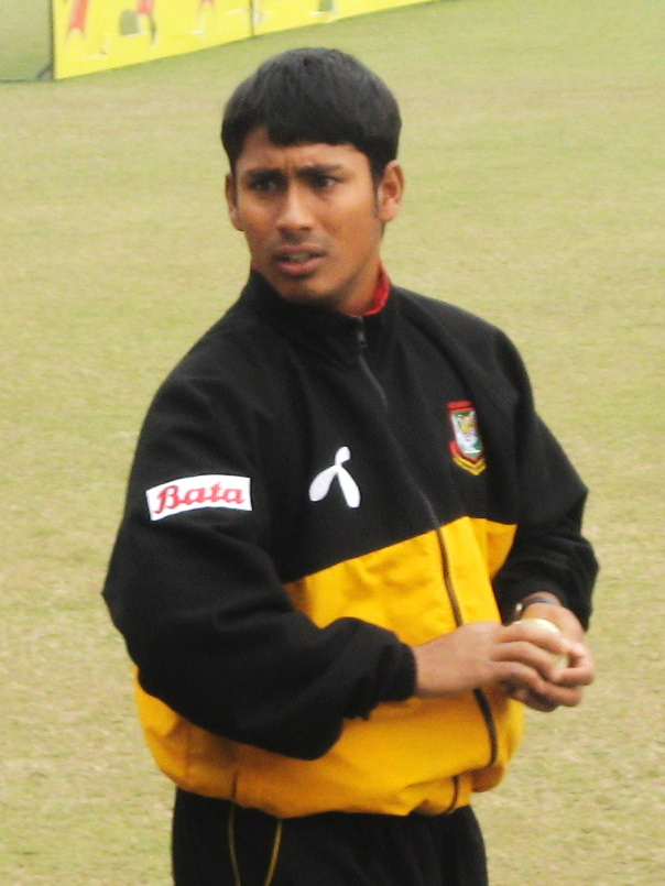 Mohammad Ashraful training, 22 February, 2009, Dhaka SBNS